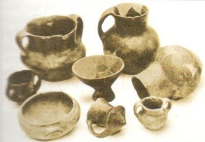 Artifacts from the bronze age found in Pelince, North Macedonia